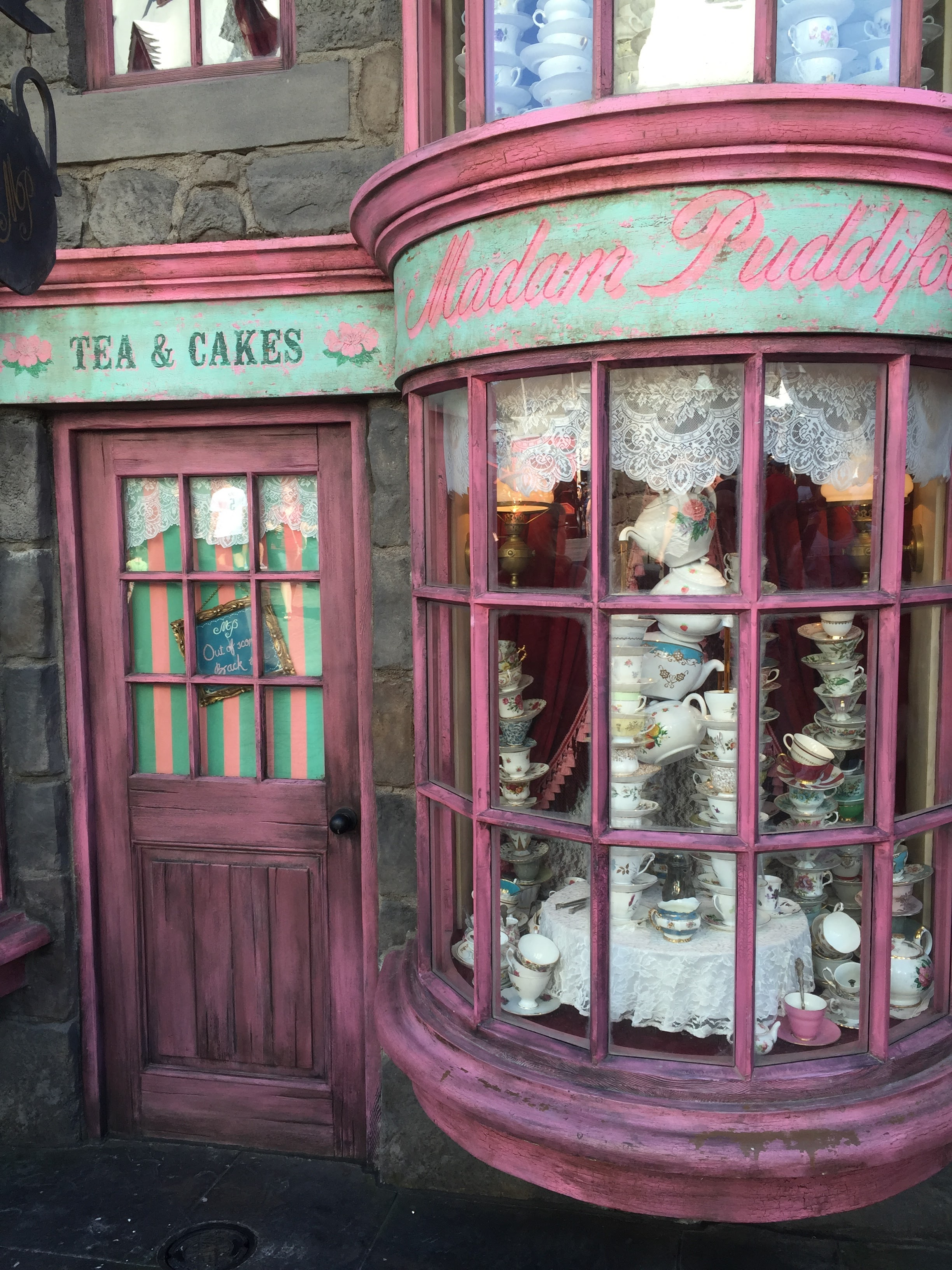 Madam Puddifoot's Tea and Cakes at Universal Studios Hollywood